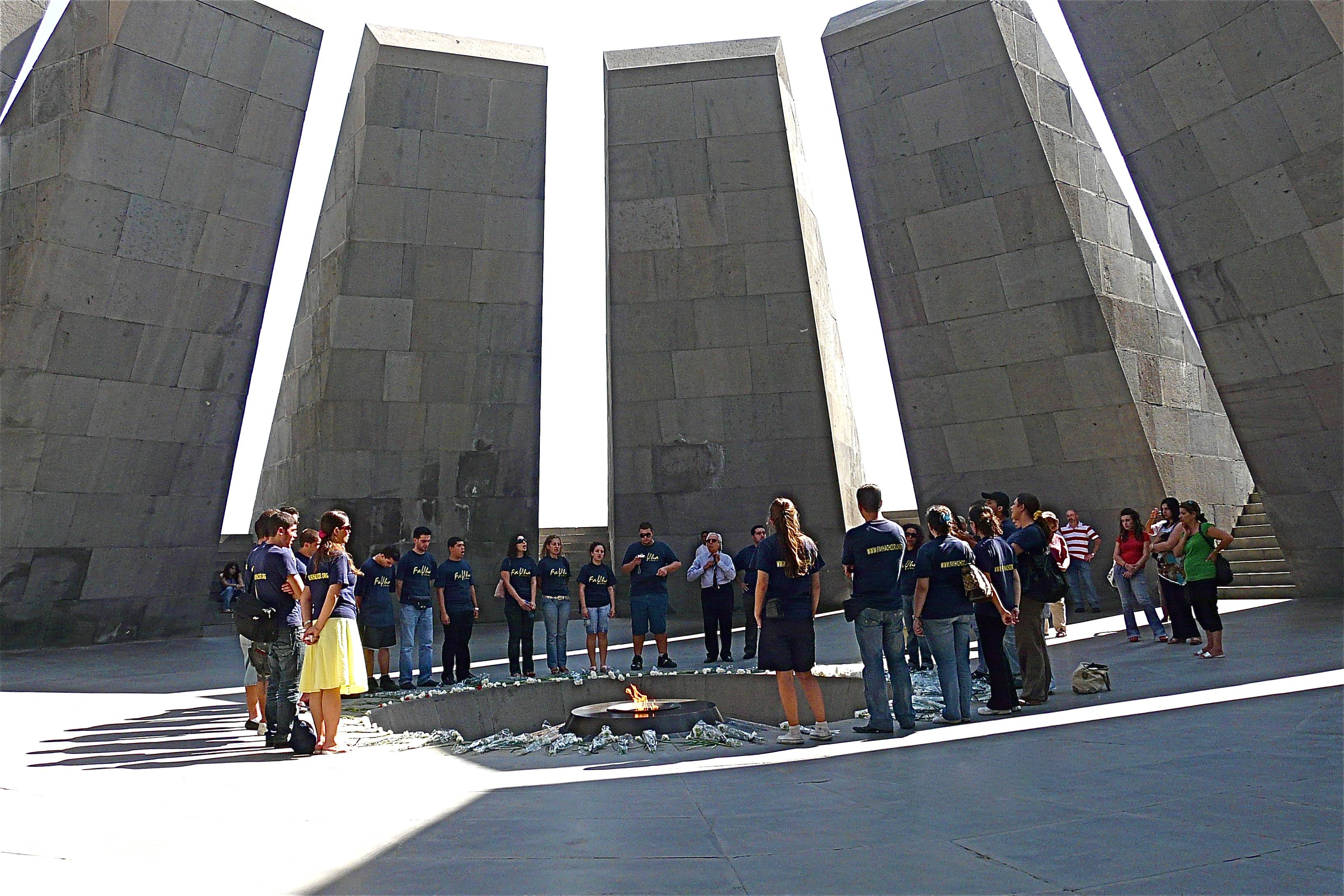 Tsitsernakaberd - Yerevan In 1965, the 50th anniversary of the genocide, a 24-hour mass protest was initiated in Yerevan demanding recognition of the Armenian Genocide by Soviet authorities. The memorial was completed two years later, at Tsitsernakaberd above the Hrazdan gorge in Yerevan. The 44 metres (140 ft) stele symbolizes the national rebirth of Armenians. Twelve slabs are positioned in a circle, representing 12 lost provinces in present day Turkey. At the center of the circle there is an eternal flame. Each April 24, hundreds of thousands of people walk to the genocide monument and lay flowers around the eternal flame.